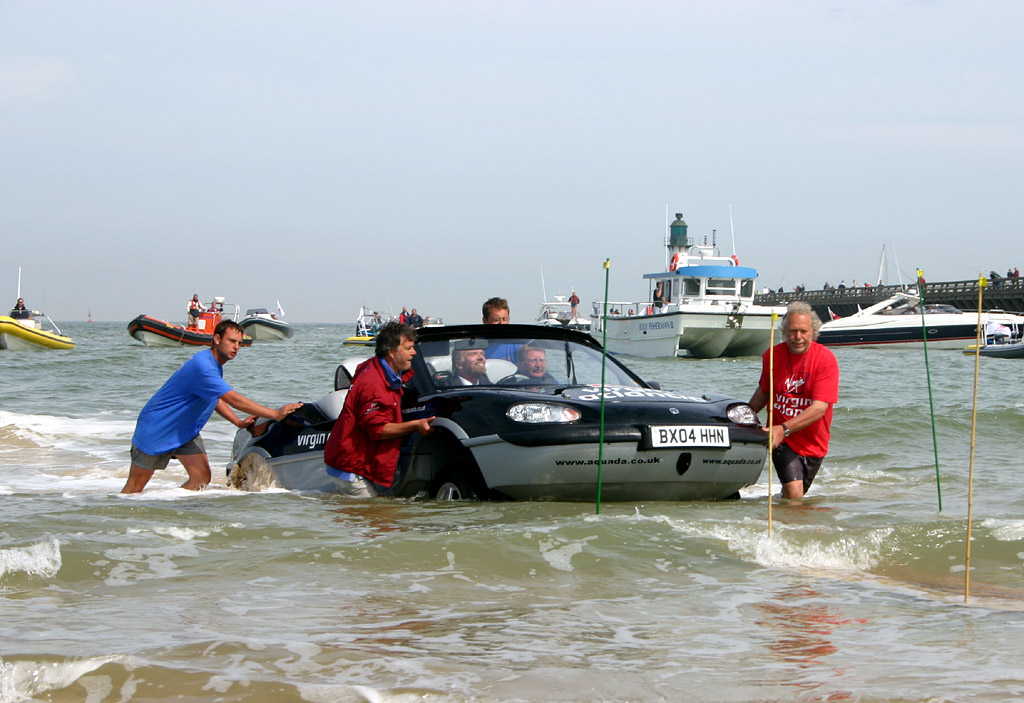 Sir Richard Branson on completion of his record-breaking attempt to cross the English Channel in an amphibious vechicle on 14th June 2004.